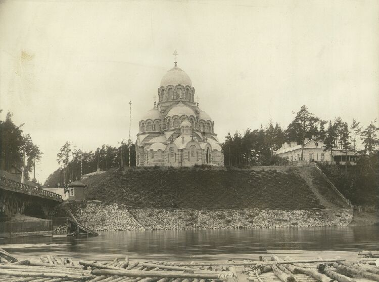 Church in Žvėrynas. Vilnius